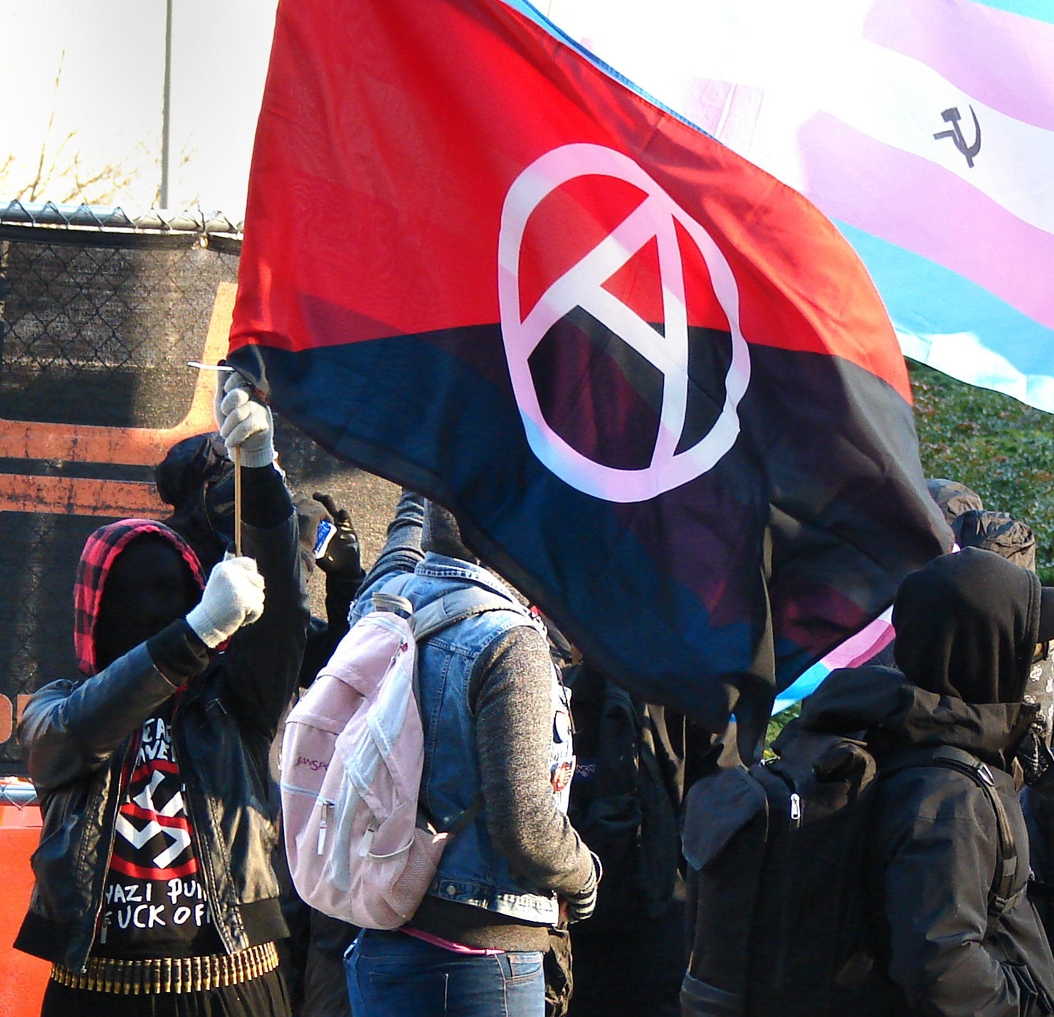 Antifa gets points for having a larger variety of flags than Patriot Prayer.